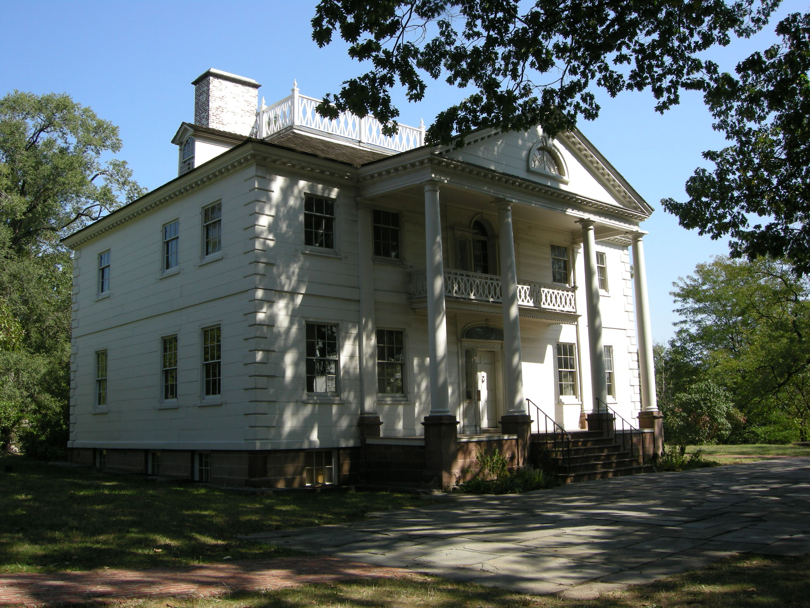 Nyc, Morris-Jumel Mansion